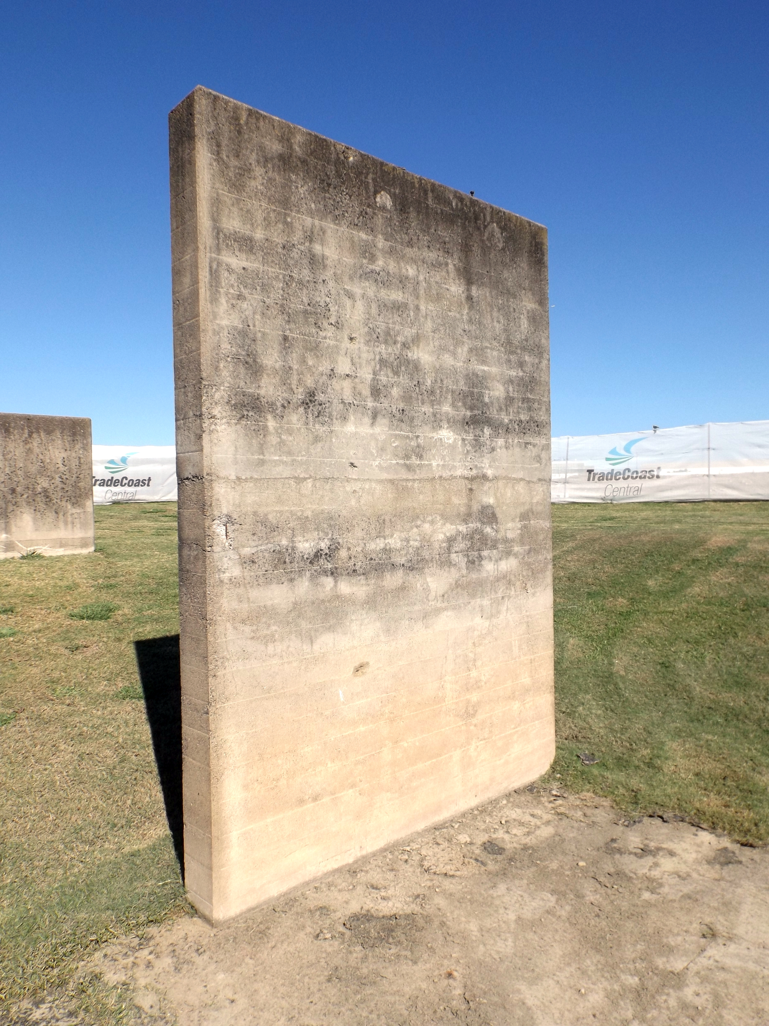 Photo of the remains of the Allison Engine Testing Stands at Eagle Farm, Brisbane, Queensland, Australia.